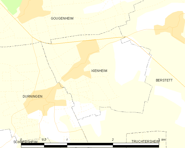 Map of French municipality